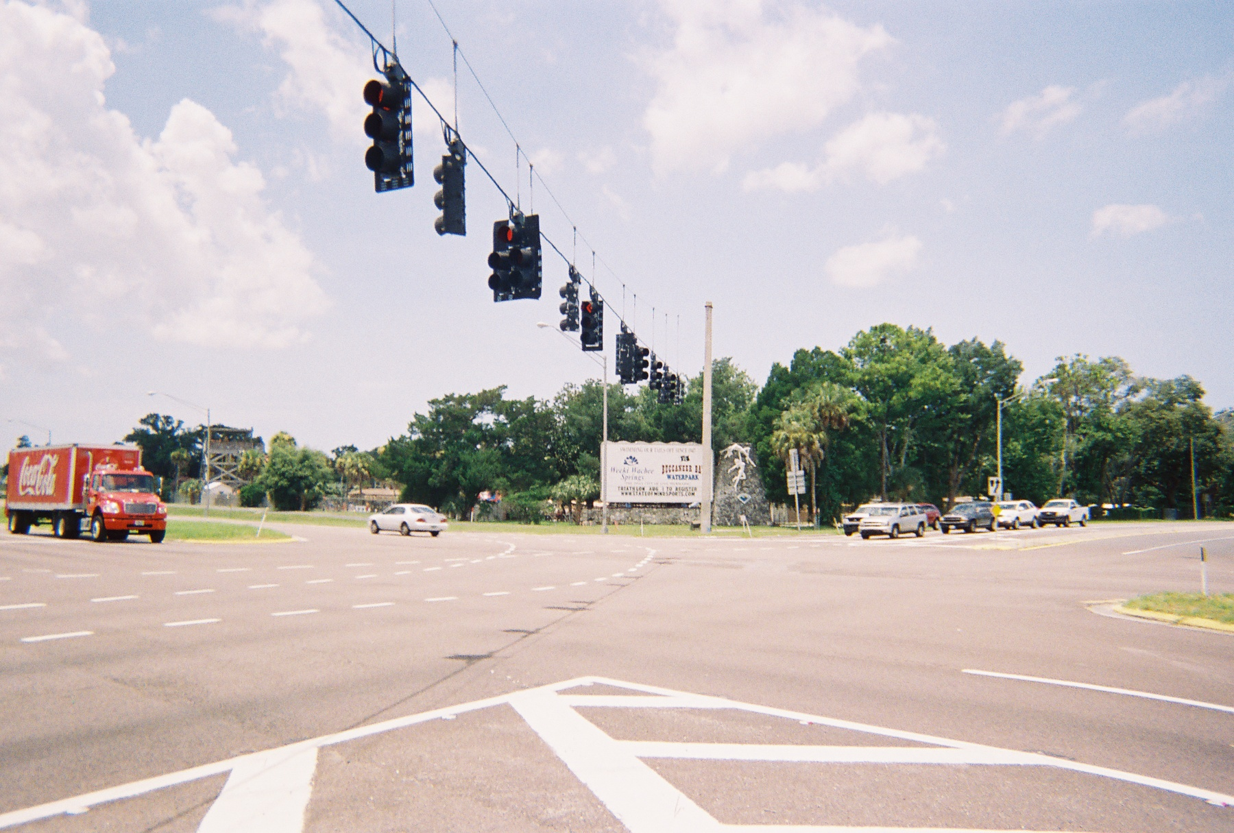 Sign for Weeki Wachee Springs and Buccaneer Bay at the southwest corner of US 19 and Hernando County Road 550, across from the western terminus of Florida State Road 50 in Weeki Wachee, Florida.